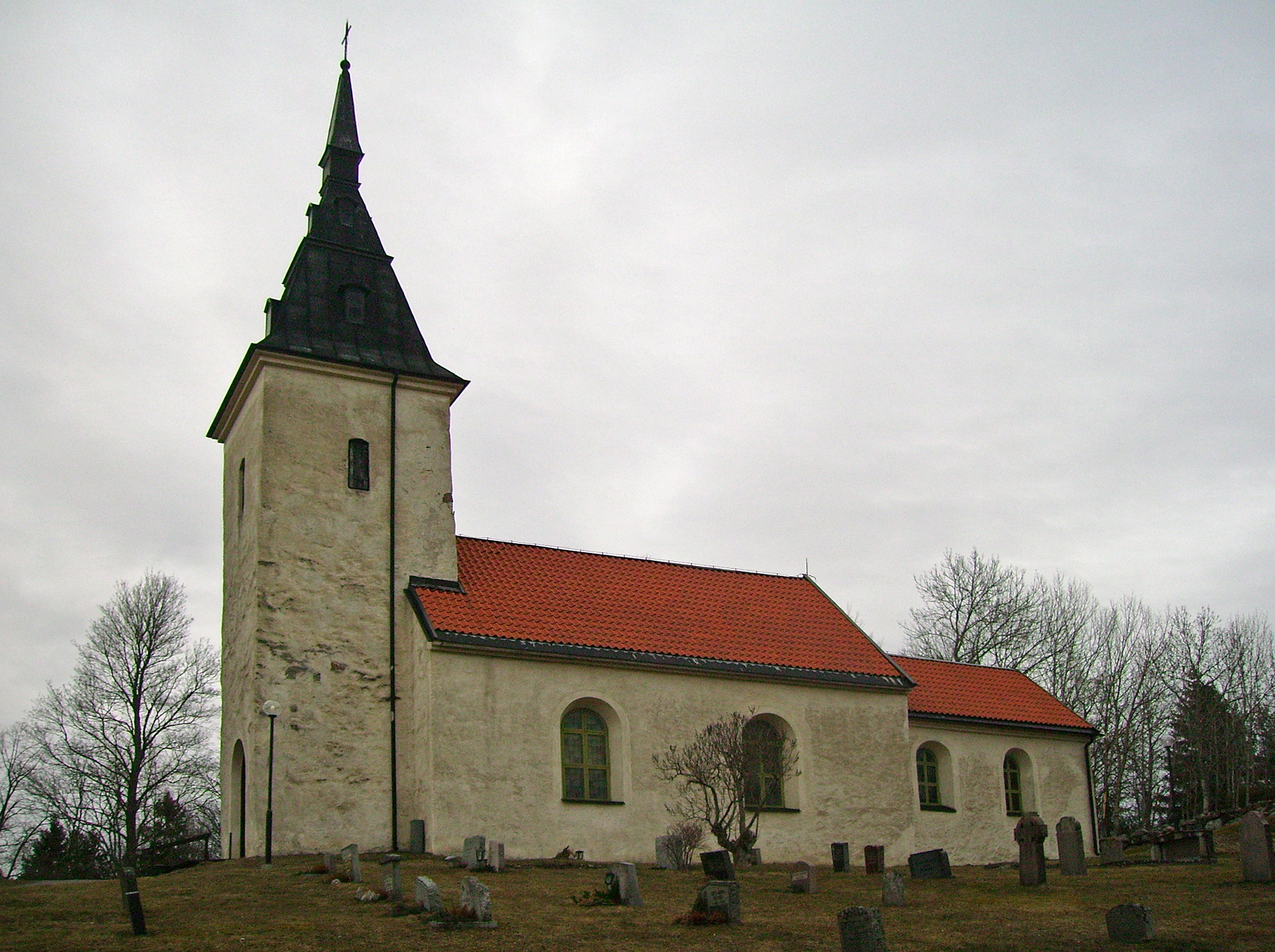 Kattnas Church in Gnesta, Sweden. March 2009.